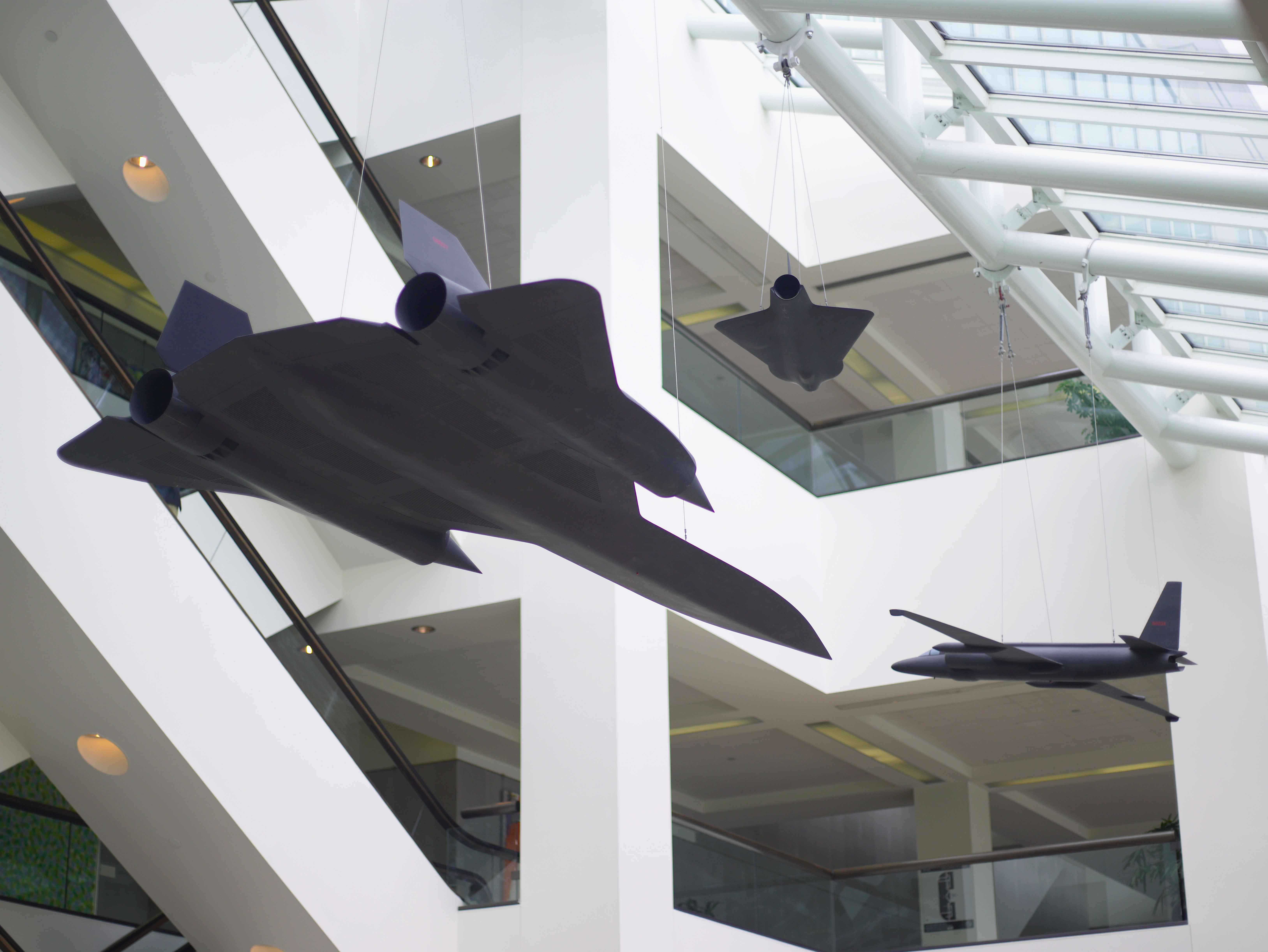 The four-story, glass-enclosed atrium of the New Headquarters Building allows Agency employees to enjoy the outdoors in good and bad weather. This area between the two towers is where pedestrian traffic between the Original and the New Headquarters Buildings converges, hence a perfect place for exhibiting varied displays of interest to CIA employees. Suspended from the ceiling are reminders of intelligence history: three models of the U-2, A-12, and D-21 Drone. These models are exact replicas at one-sixth scale of the real planes. All three had photographic capabilities. The U-2 was one of the first espionage planes developed by the CIA. The A-12 OXCART set unheralded flight records. The D-21 Drone was one of the first unmanned aircraft ever built. Lockheed Martin Corporation donated all three models to the CIA. To learn more about the CIA, visit